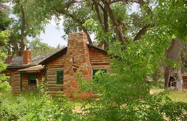 Caroline Lockhart Ranch House, Bighorn Canyon National Recreation Area, Montana, USA